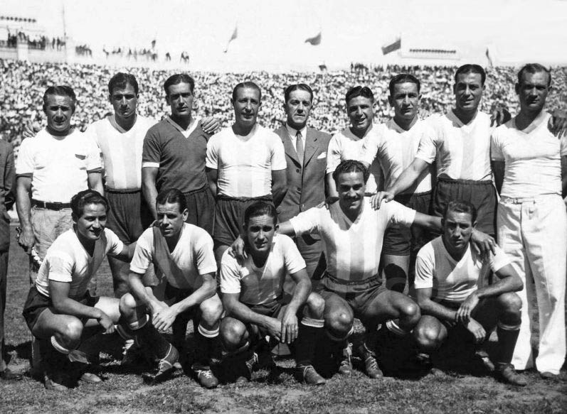 The Argentina national team that won the Copa América. (Up): Stábile (DT), Salomón, Gualco, Minella, Colombo, Alberti, Sbarra. (down): Pedernera, Sastre, Marvezzi, J.M. Moreno, Enrique García.